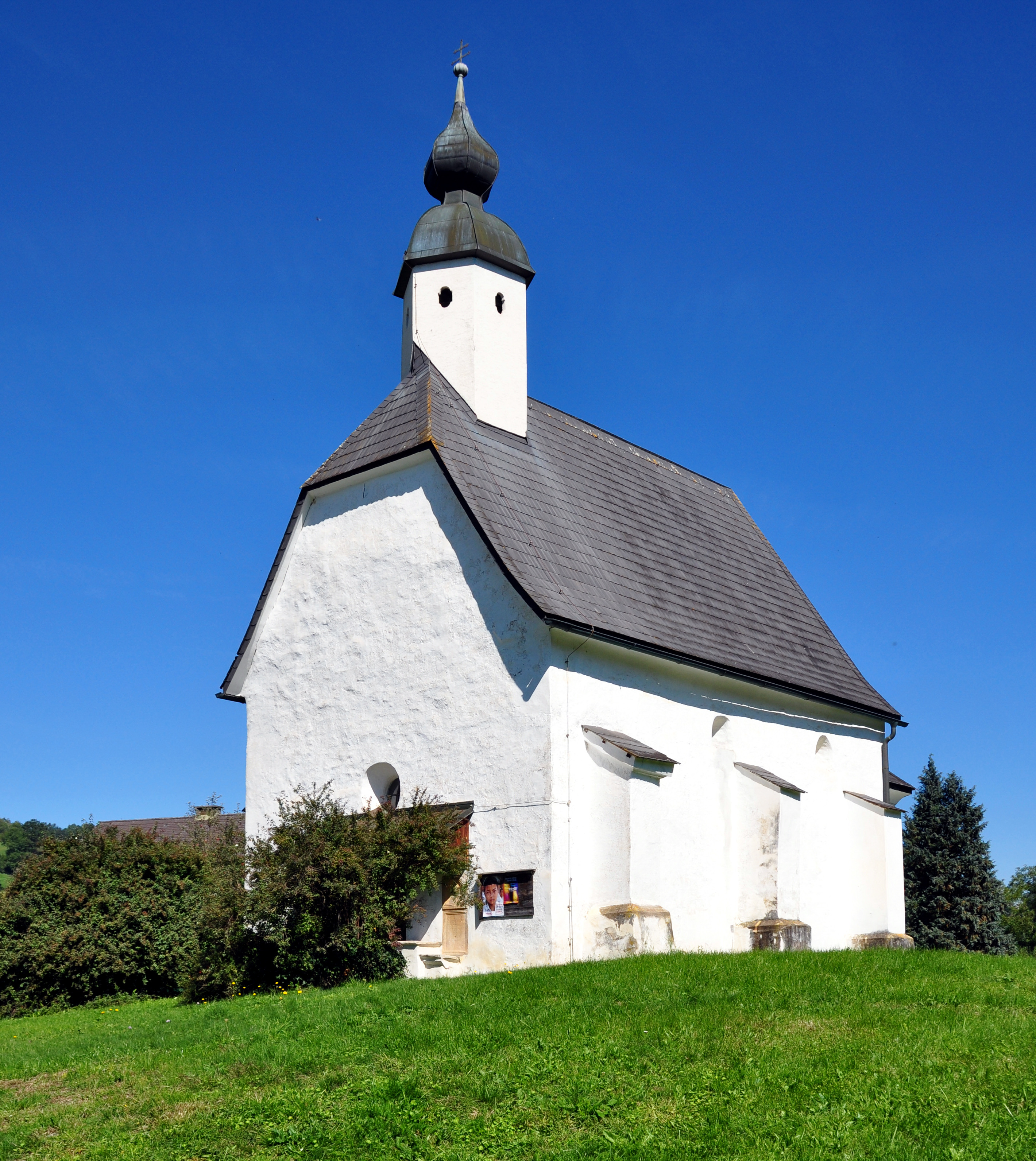 Subsidiary church Saints Jakobus and Anna in Moederndorf, market town Maria Saal, district Klagenfurt Land, Carinthia, Austria, EU